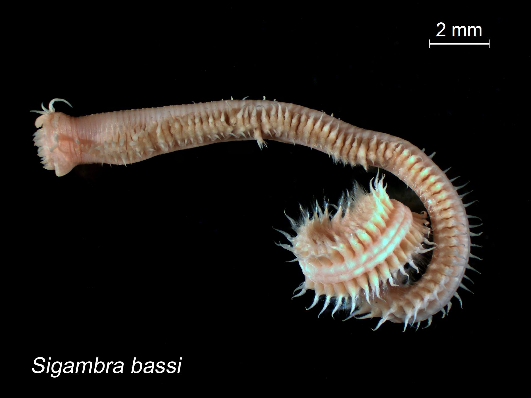 Collected from Puget Sound sediments and photographed by the Washington State Department of Ecology’s Marine Sediment Monitoring Team. For more information about this team’s work visit